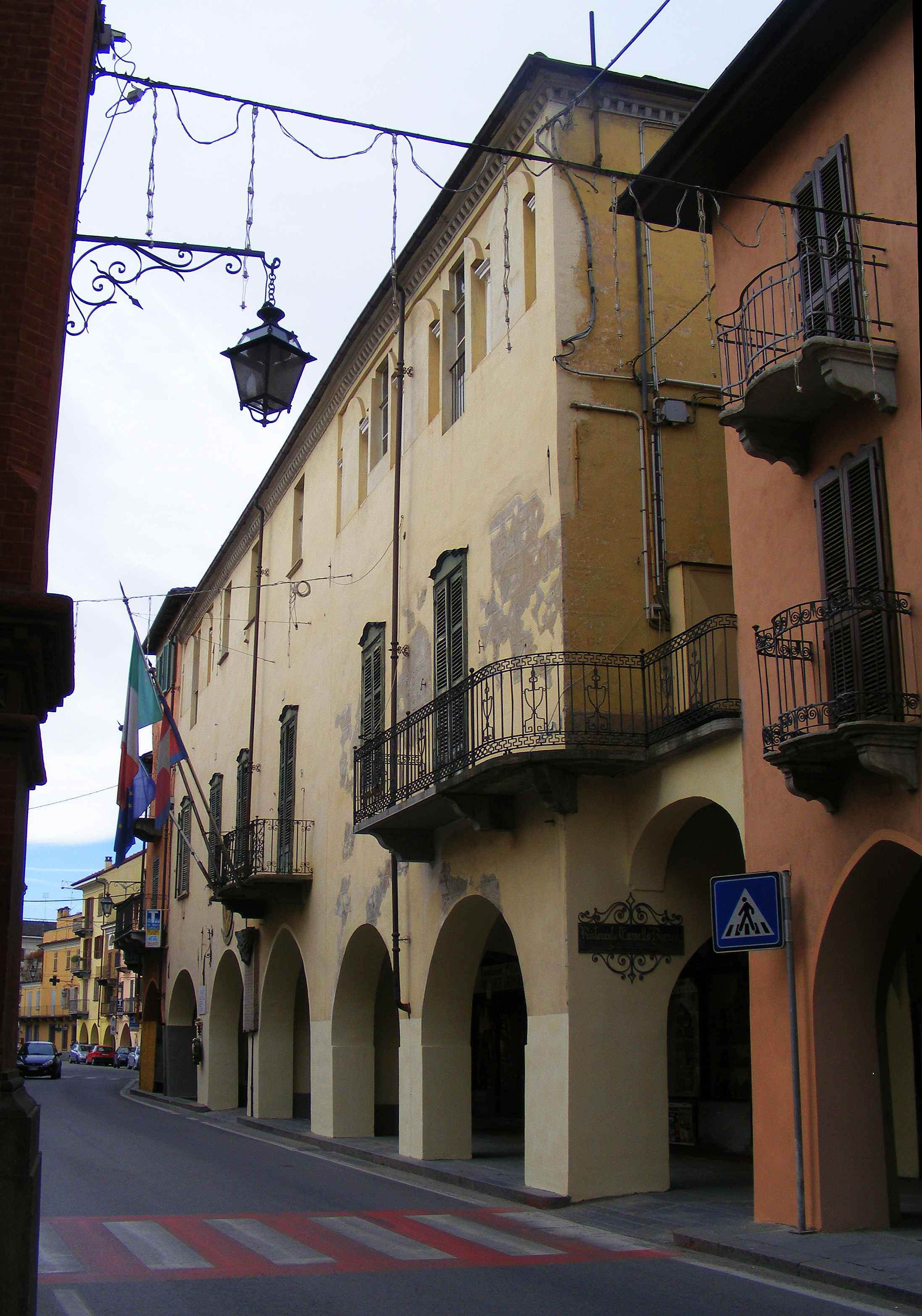 Dronero (CN, Italy): town hall